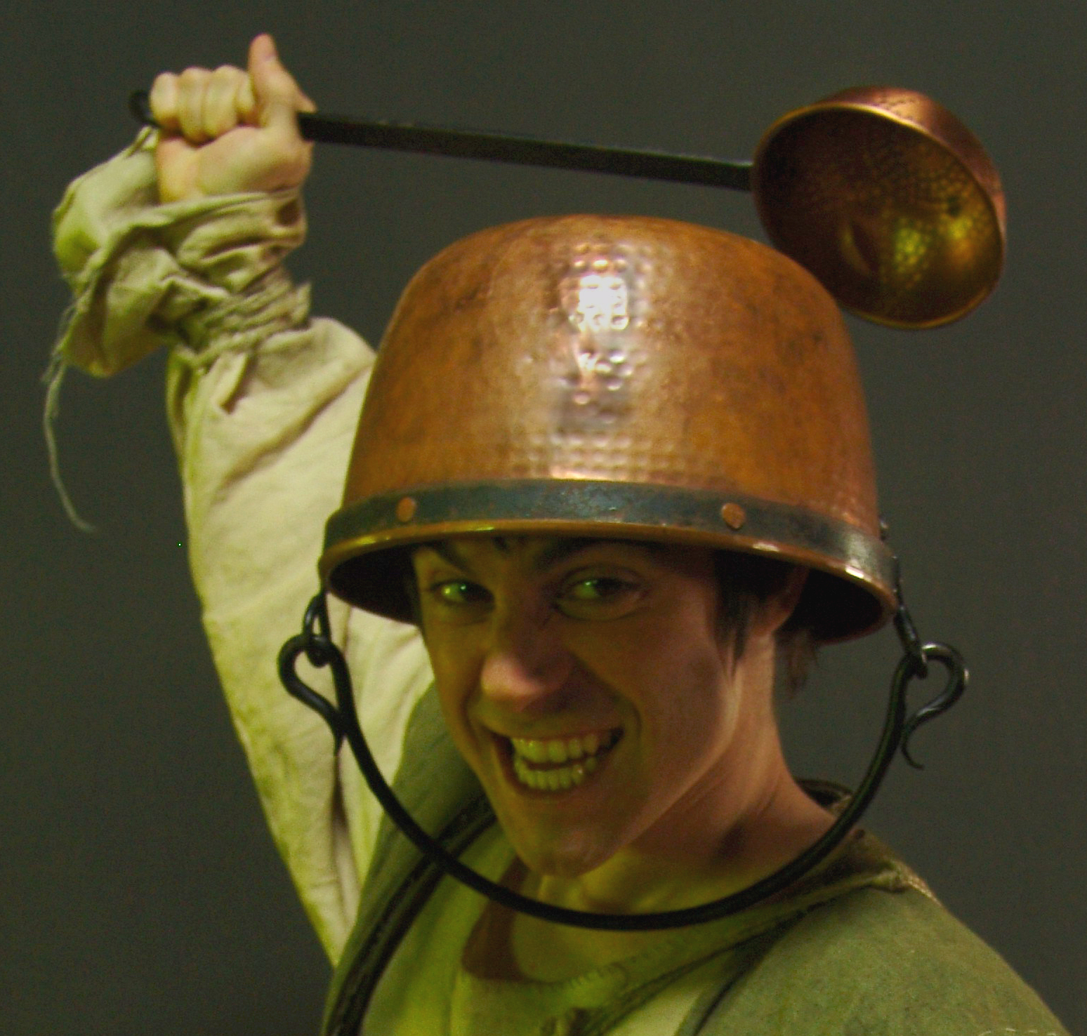 Mystikal feature main actor Iban Garate in the role of Eldyn